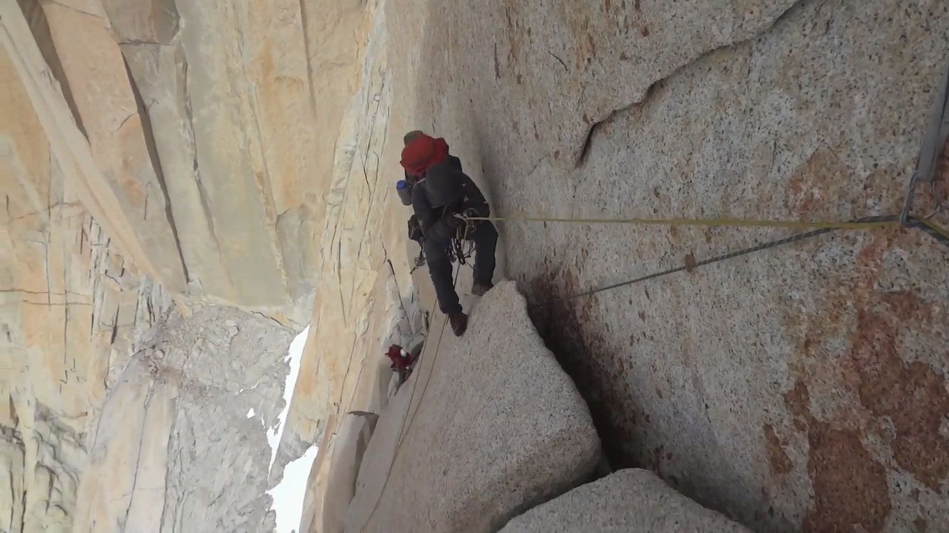 Climbing in Fitz Roy, Chaltén - Argentina